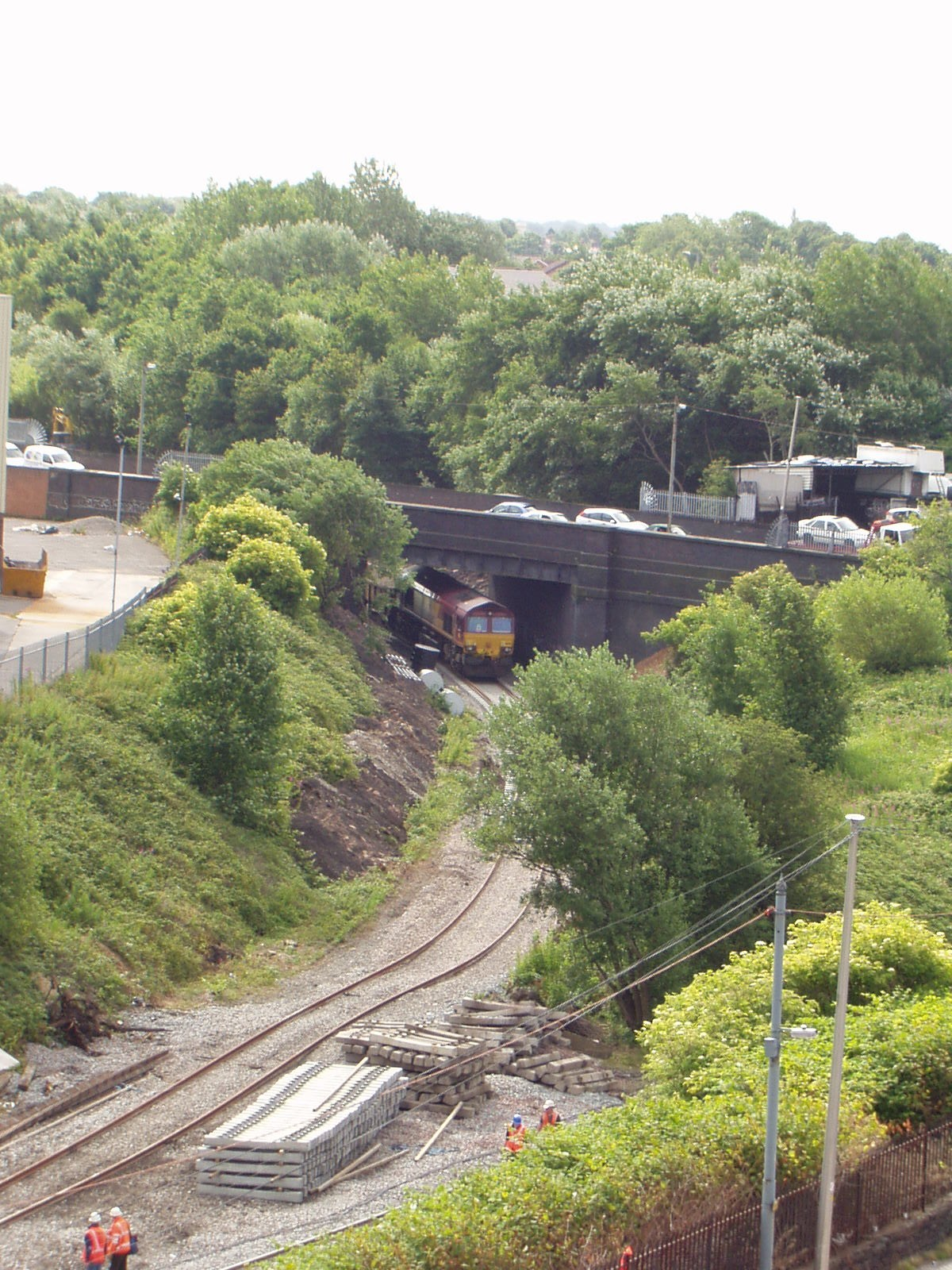 The north end of the Olive Mount chord (railway link) in Liverpool, with reconstruction work nearing completion. The rails of the Canada Dock Branch are just visible behind the hedge at the bottom of the image.